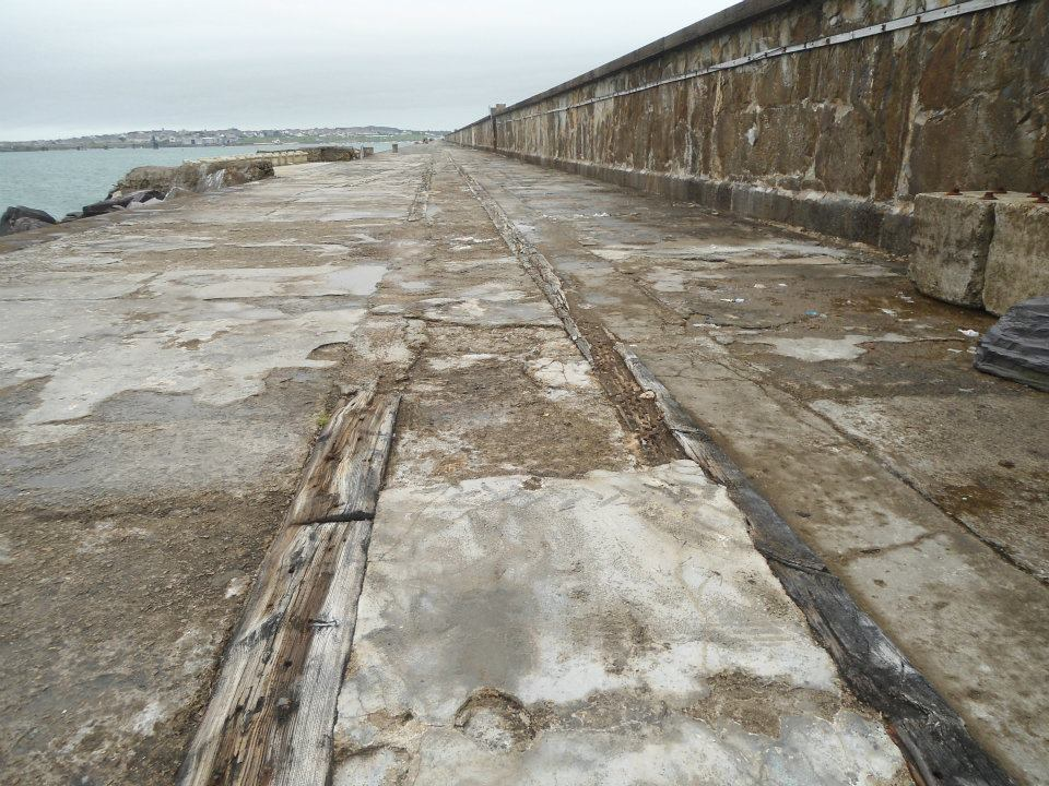 Some remains of the railway on the Holyhead Breakwater, Anglesey